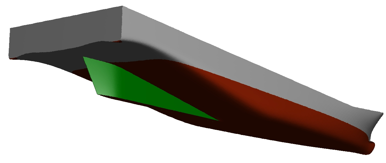 modell of twin screw bare hull with highlighted centerskeg.